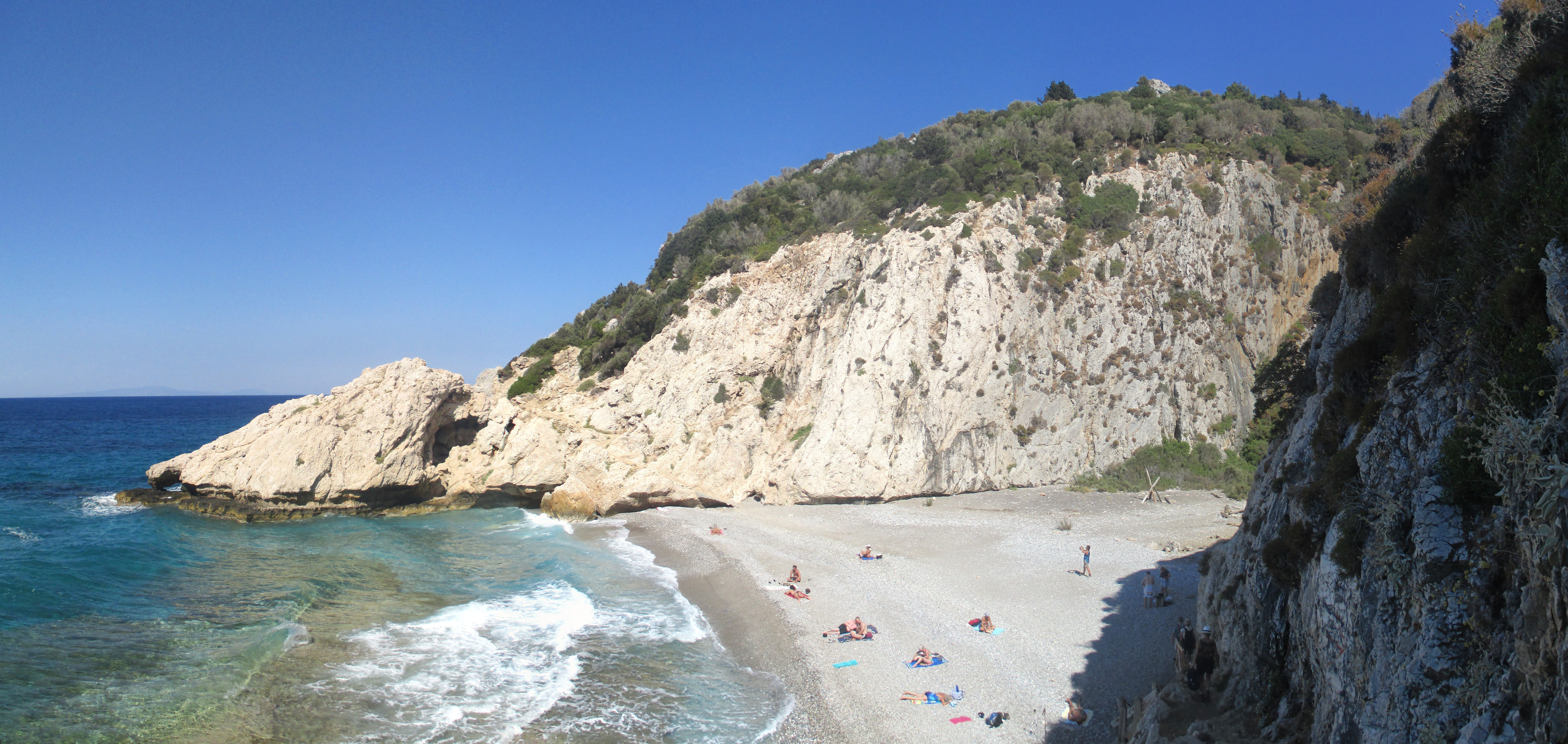 Mikro Seitani beach, Samos, Greece.